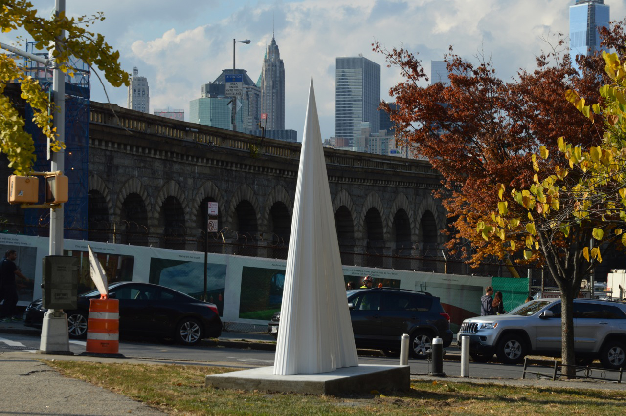 Public Sculpture by Nick Hornby in DUMBO, NYC 2014